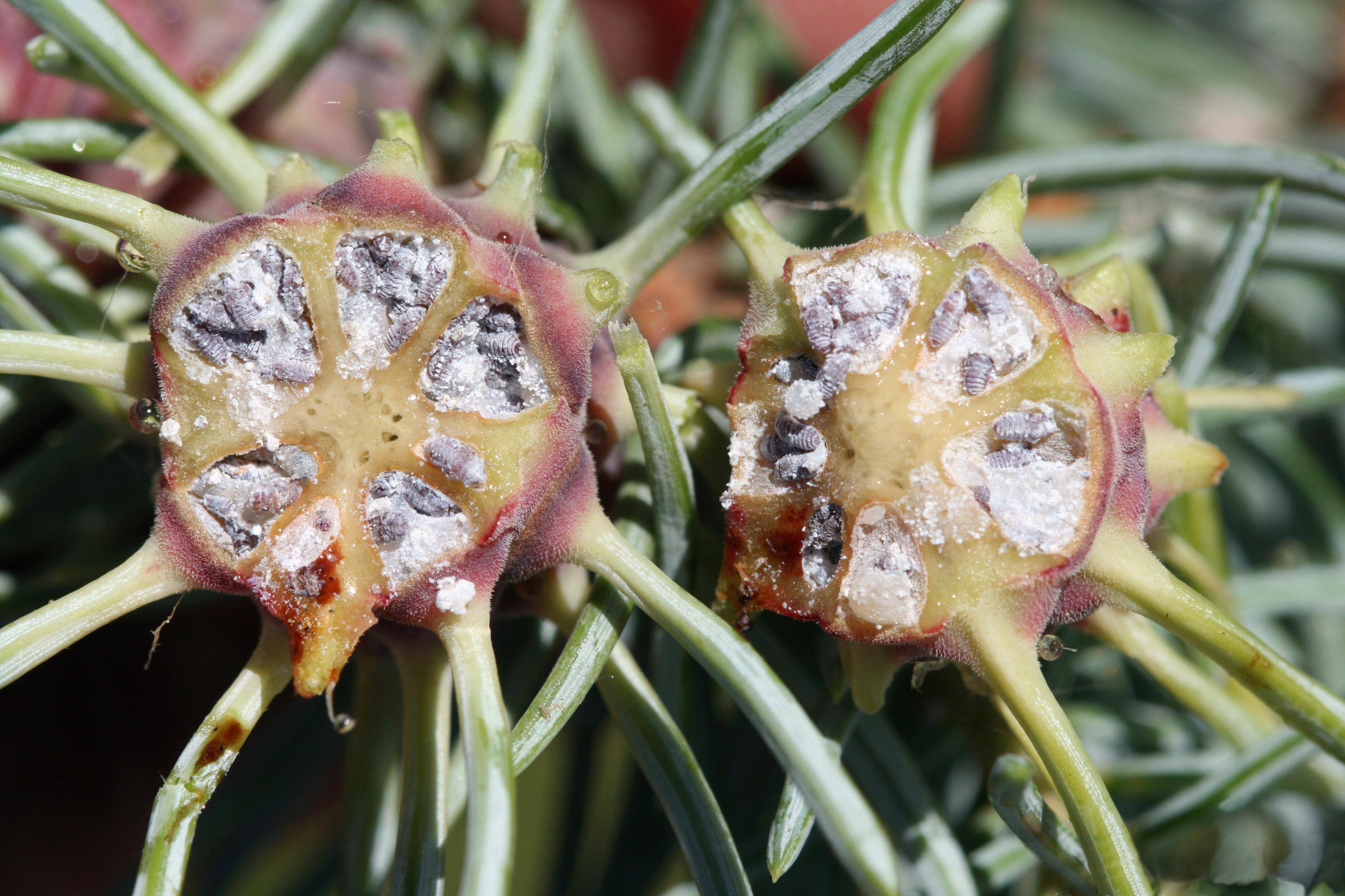 Adelges cooleyi Gillette Host: blue spruce Picea pungens Engelm. Common Name: cooley spruce gall adelgid Photographer: Whitney Cranshaw, Colorado State University, United States Descriptor: Nymph(s) Description: late stage nymphs exposed within gall chambers Image taken in: United States